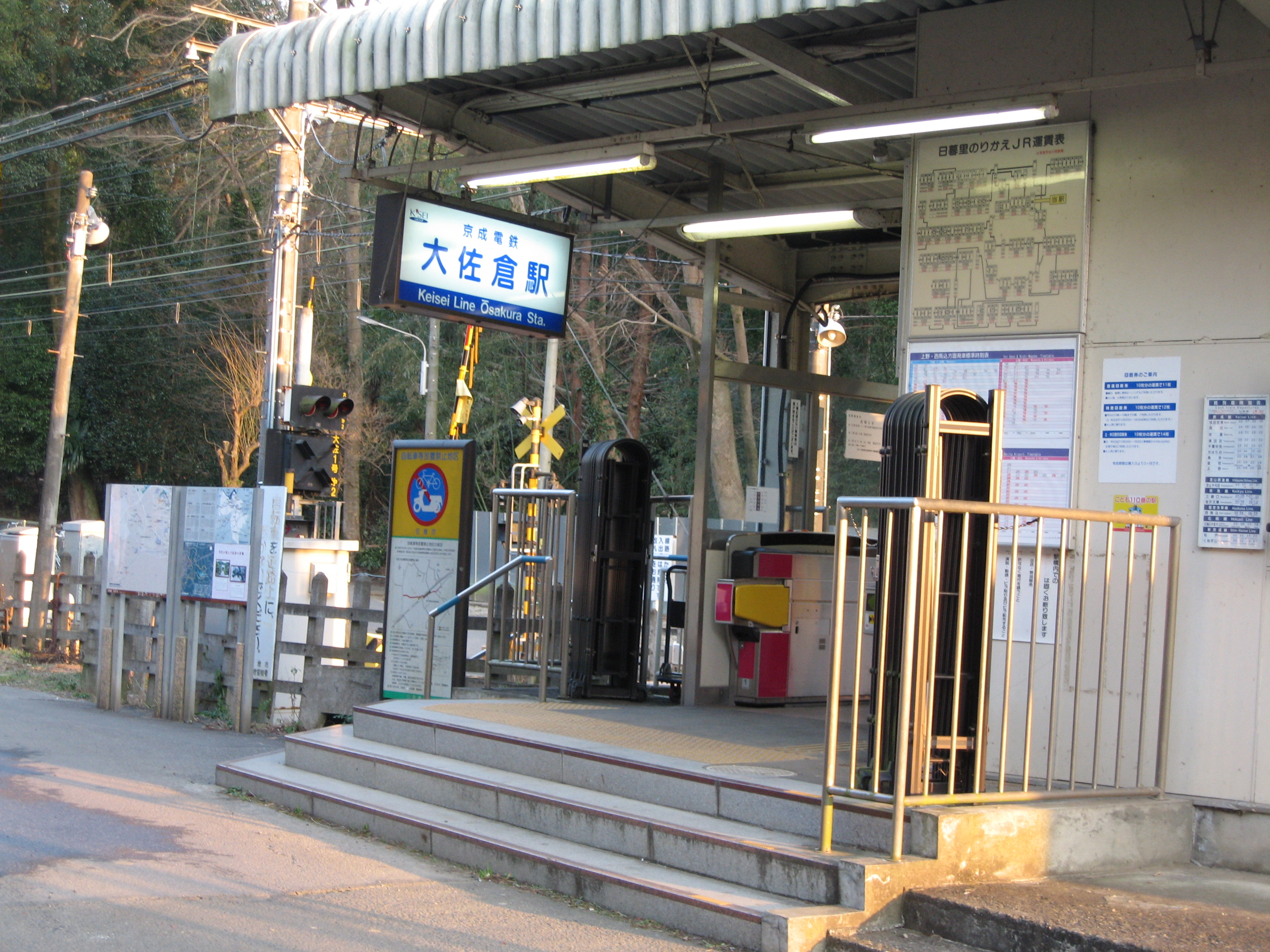 Osakura Station on Keisei Main Line, in Chiba, Japan